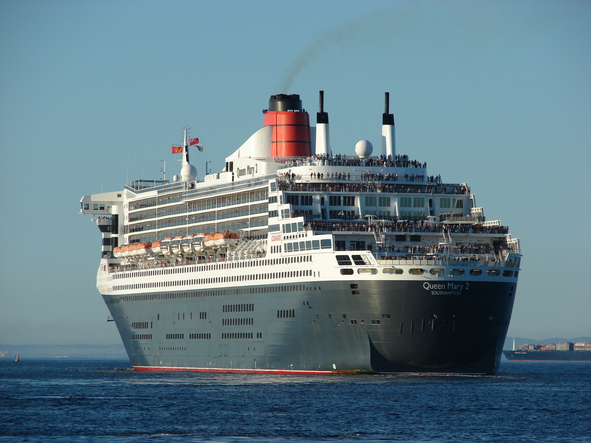 The RMS Queen Mary 2 leaves Cape Town on her way to Durban and then onto Sydney. Taken on Saturday 5th February 2011 at 6h50pm from the Container Terminal in Cape Town, South Africa